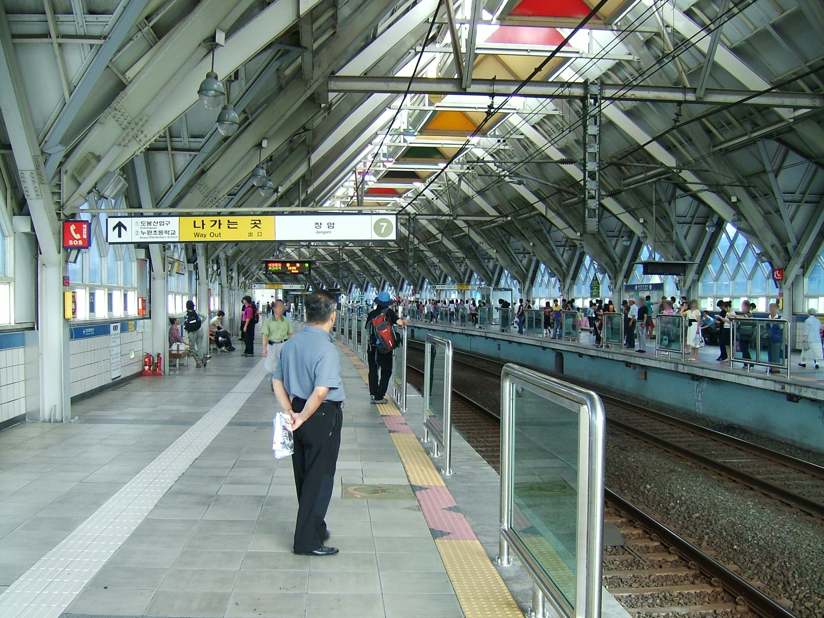 The platforms at Dobongsan Station on Seoul Subway Line 7 in Dobong-gu, Seoul, Republic of Korea(South Korea)